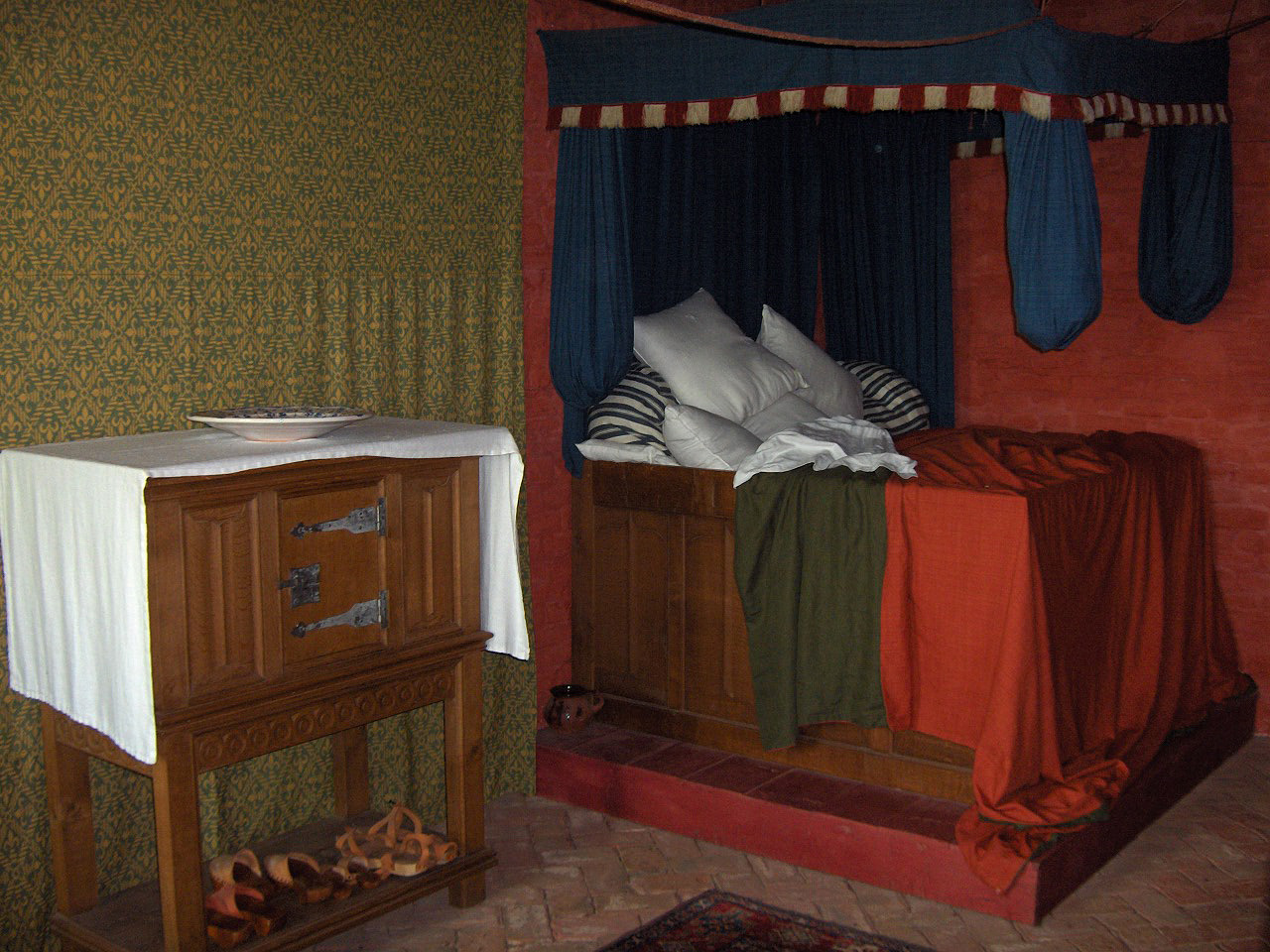 canopy bed c. 1465; at the archeological site of Walraversijde; near Oostende, Belgium